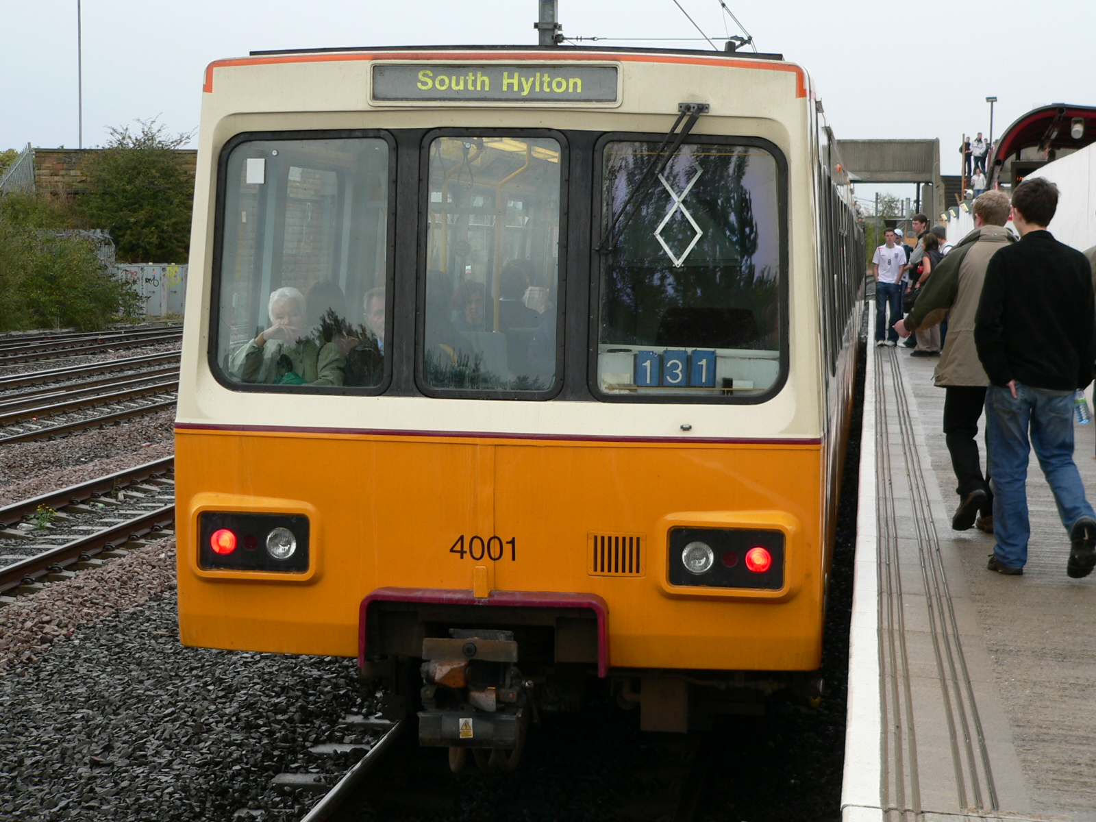 Prototype Tyne and Wear Metro train 4001 in original livery (cadmium yellow and white with a maroon stripe) at Pelaw station with a Yellow line train to South Hylton.